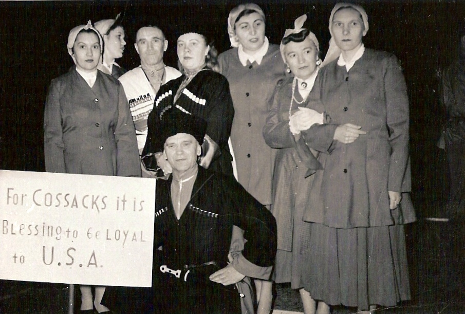 American Cossacks showing loyalty to the USA